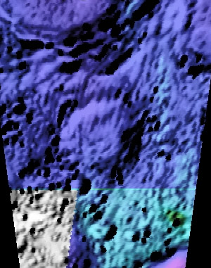 Colour-coded Lac 141 from USGS Digital Atlas